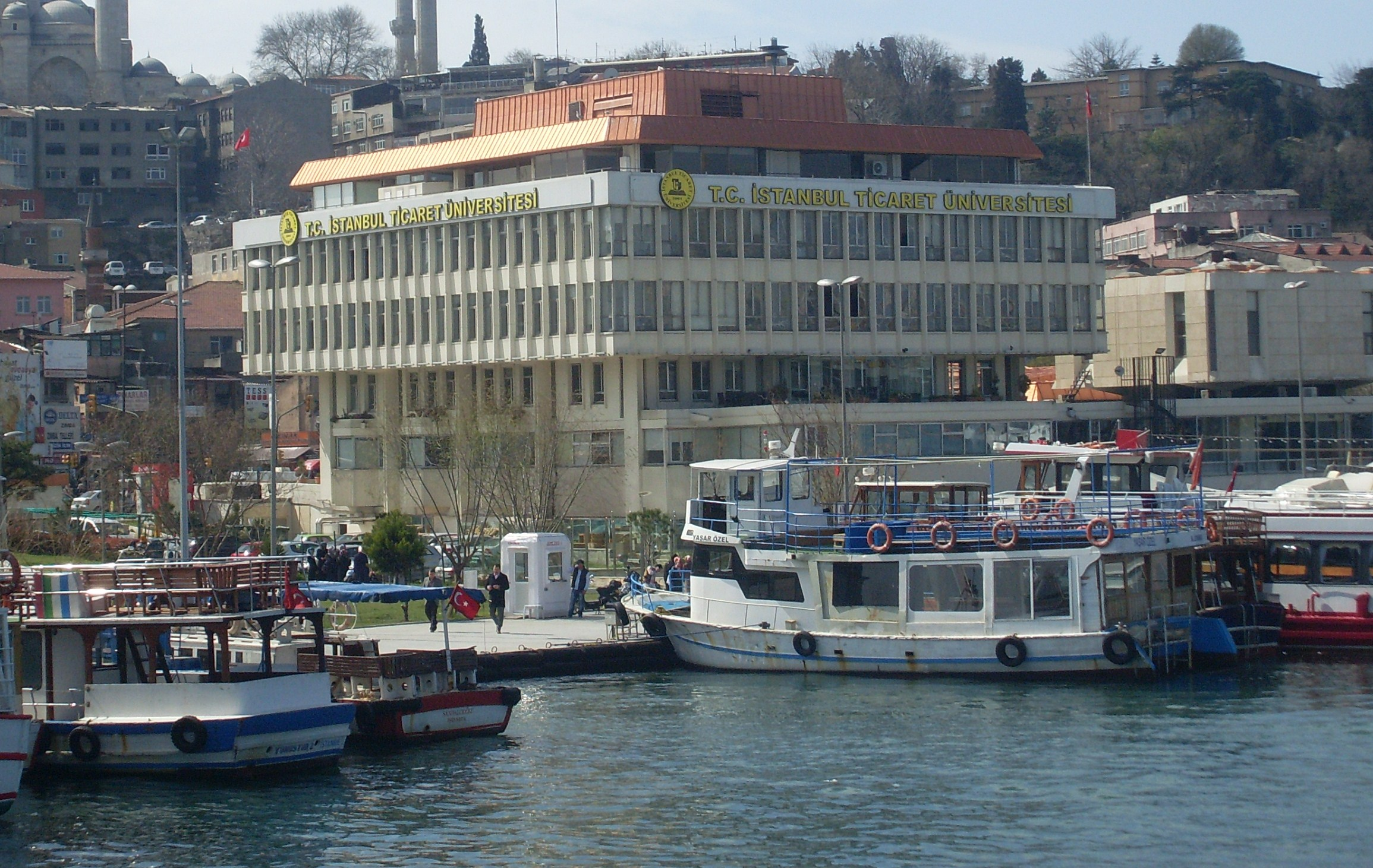 İstanbul Commerce Univ.- Mart 2013 R1